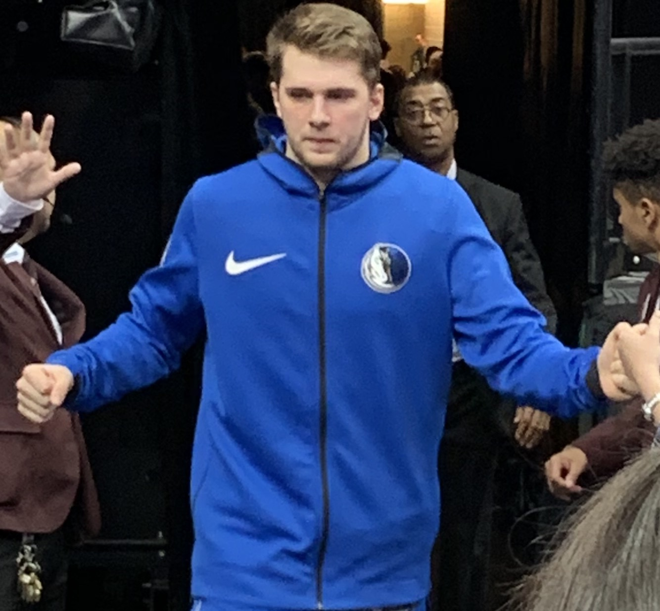 A picture of Luka Dončić entering the American Airlines Center in Dallas, Texas, USA before a game against the Portland Trail Blazers on December 4, 2018